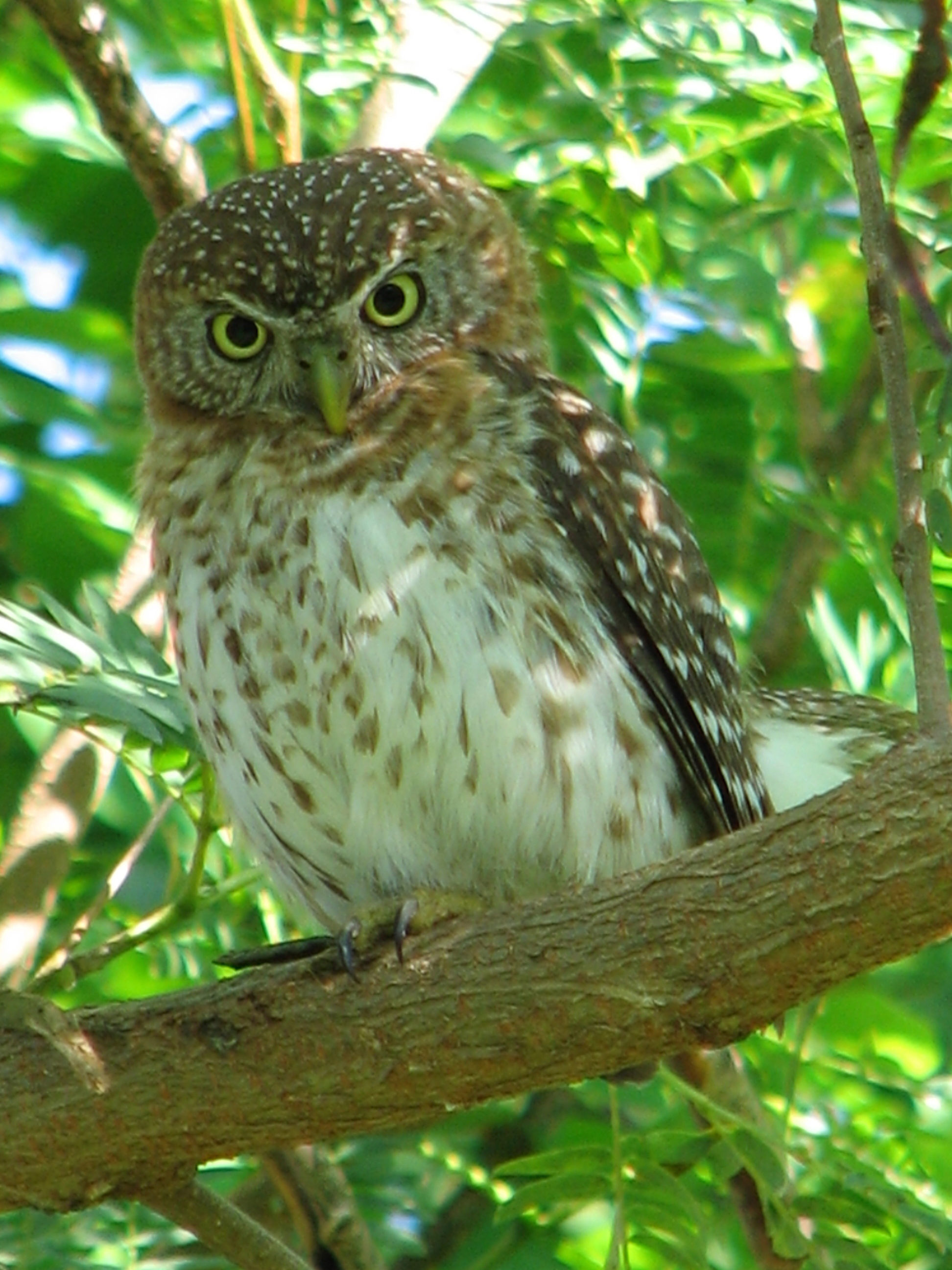 This photo of a Cuban Pygmy Owl (Glaucidium siju) was taken by Navy Petty Officer 1st Class Marty Parsons in May 2008 across from the Naval Station’s Tierra Kay housing complex. It took two weeks for Parsons, assigned to Joint Task Force Guantanamo, to capture this photo and this type of owl is unique in that it is only as tall as someone's hand.